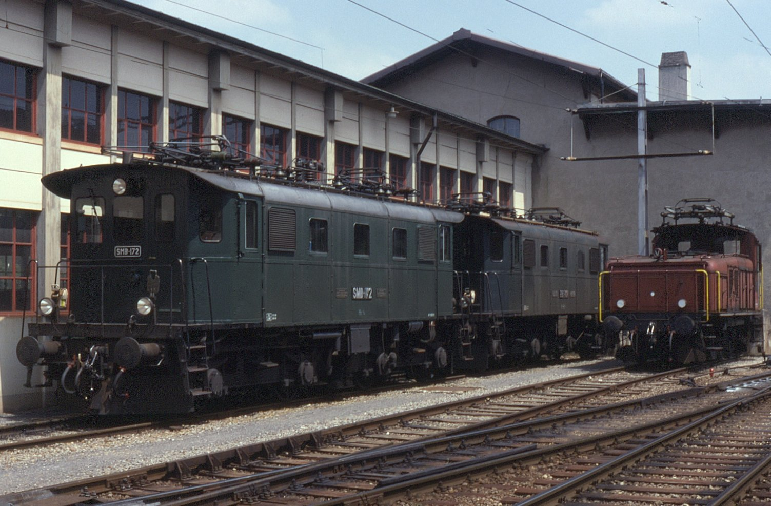 Seen stabled outside the depot at Huttwil on 8 July 1993 is a collection of locos owned (at the time) by three private operators albeit under one management. From left to right: Solothurn-Münster-Bahn (SMB) Be 4/4 no. 172 Emmental-Burgdorf-Thun-Bahn (EBT) Be 4/4 no. 108 Vereinigte Huttwil Bahnen (VHB) Ee 3/3 no. 151 (ex SBB 16323) These three standard gauge railways became known as the Regionalverkehr Mittelland (RM) and later swallowed up in to the BLS group of companies.